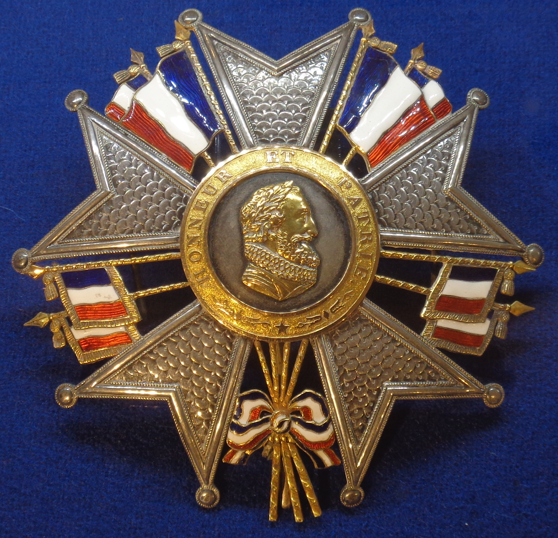 Order of the Legion of Honour, star, 1830-1848. Kingdom of France. The exhibition of the Tallinn Museum of Orders of Knighthood, Estonia.